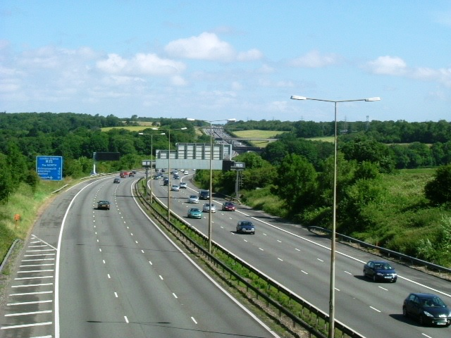 M25 motorway